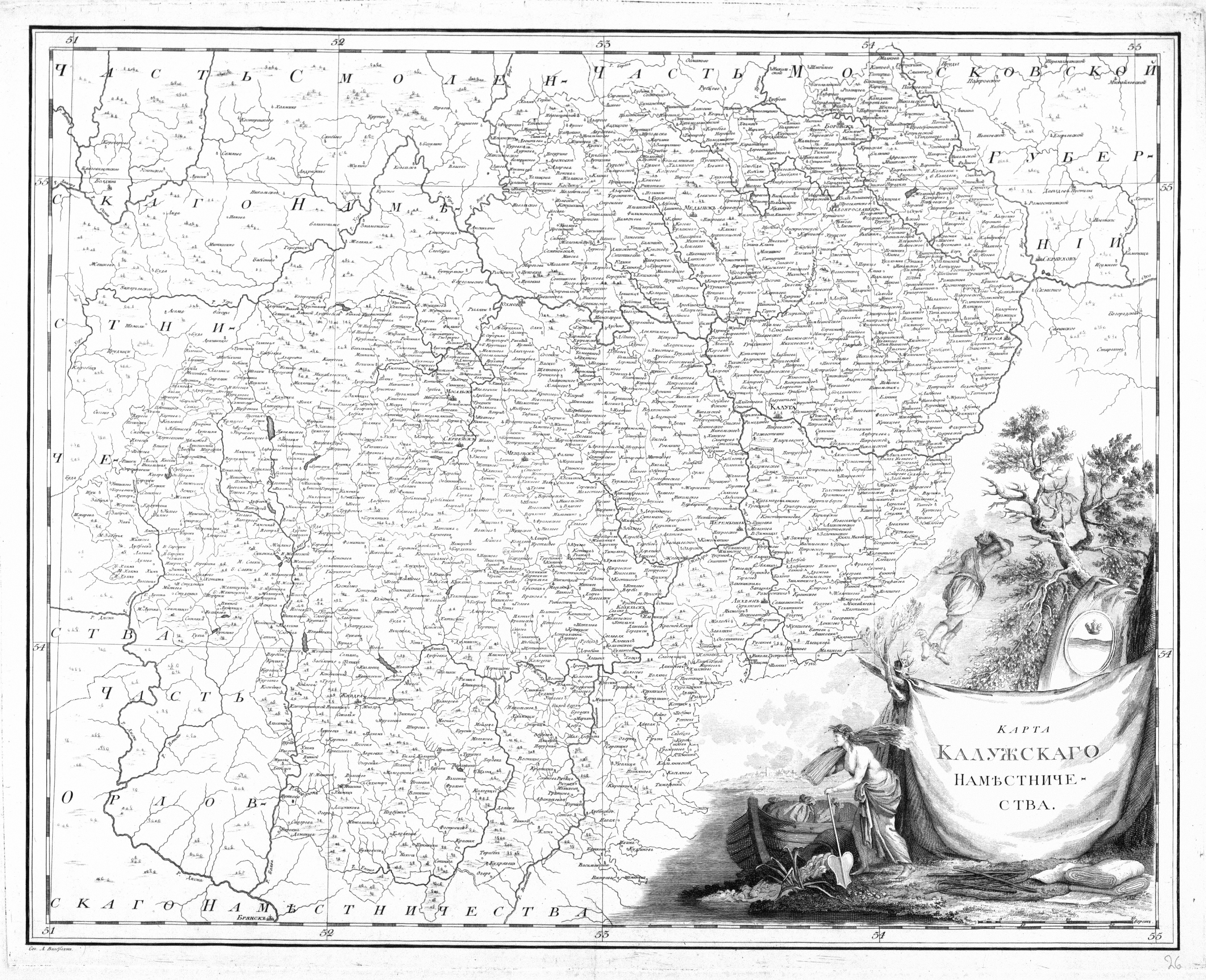 Map of Kaluga Namestnichestvo (sheet 26) from official Atlas of the Russian Empire (1792).